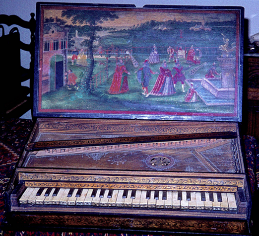 Andreas Ruckers Epinette or Virginal, ab1610; Ruckers ,considered the Stradivarius of Harpsichord makers; Part of the Hans Adler Instrument collection